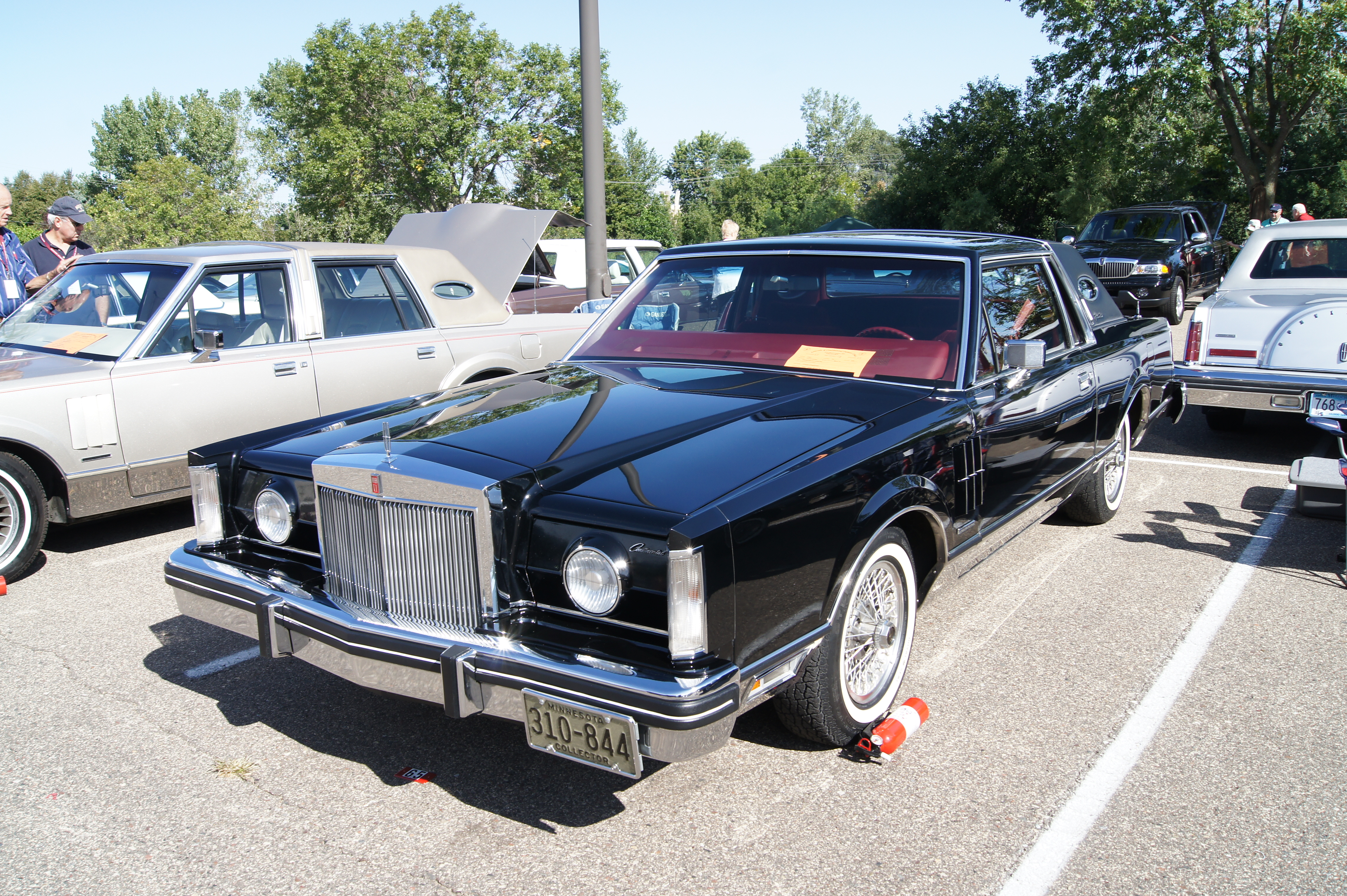 A front view of a 1982 Continental Mark VI Signature Series two-door sedan. This sedan is equipped with the optional auxiliary headlamps (shown in the deployed position).